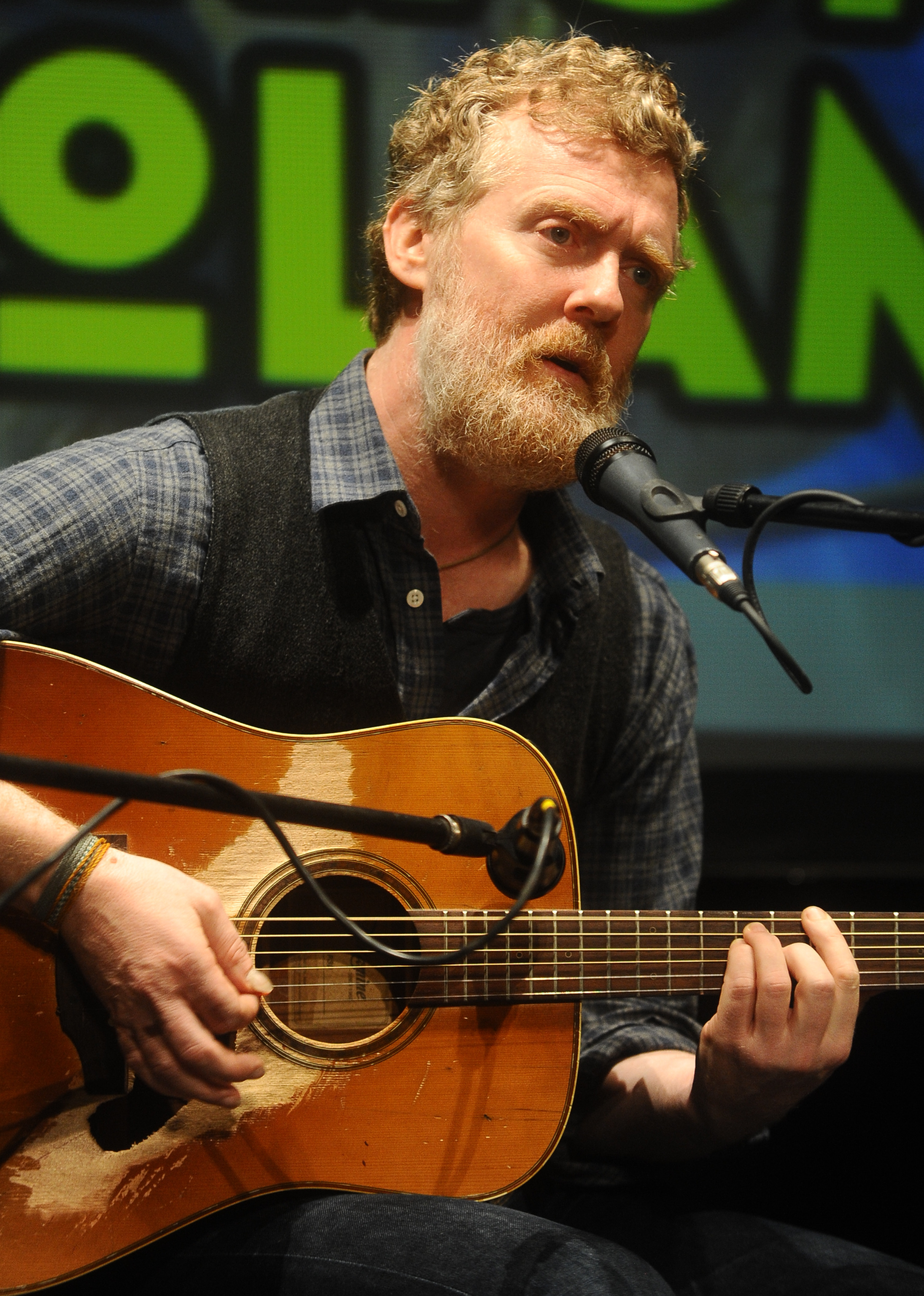 Glen Hansard at Lucca Comics & Games 2015